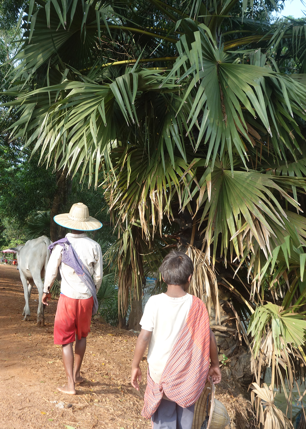 Farmer and his son wearing krama scarves in the vicinity of Siem Reap.